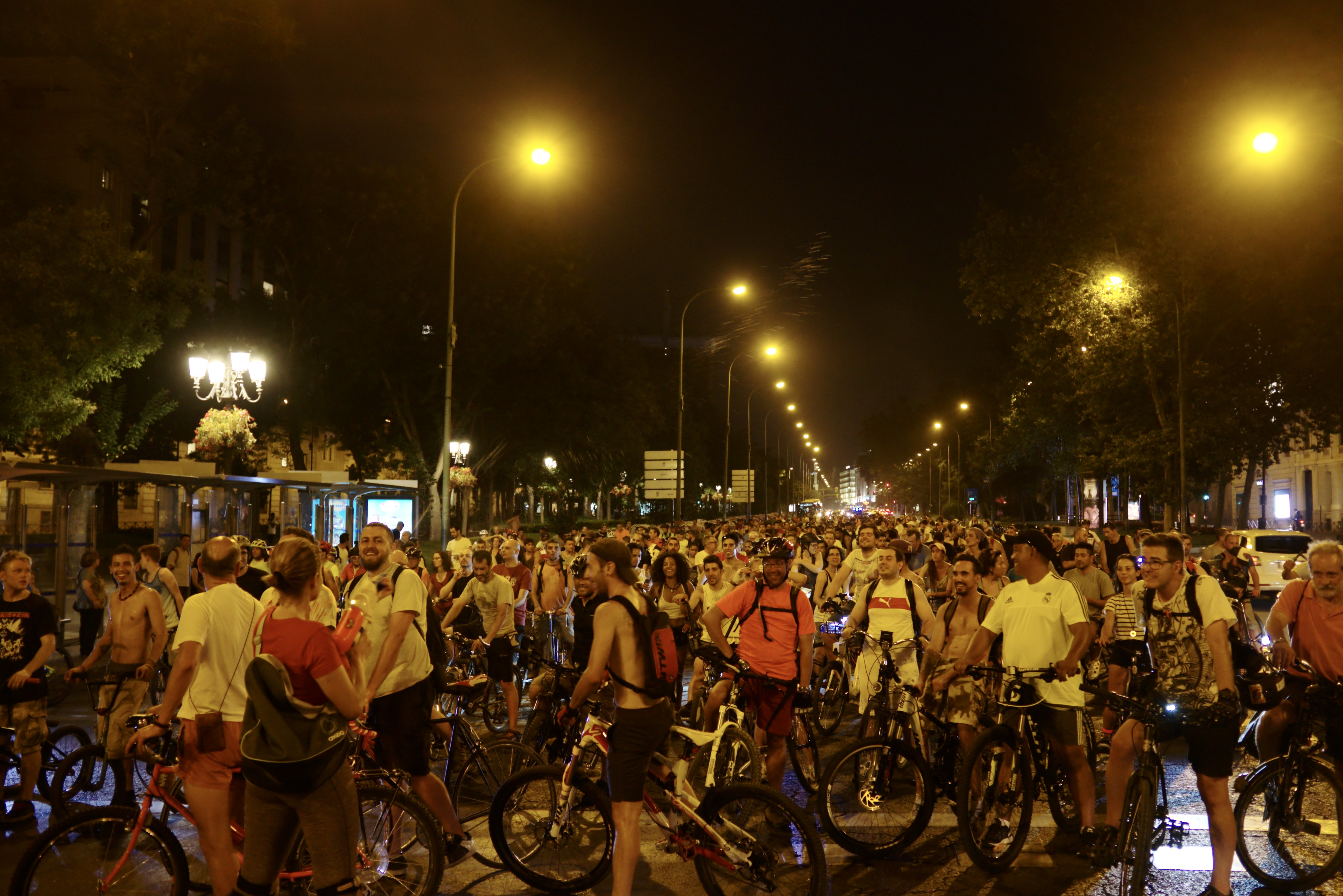 Bici Crítica (Critical Mass) in Madrid